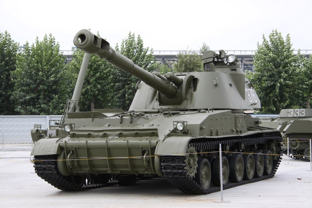 Verkhnyaya Pyshma Tank Museum 2011